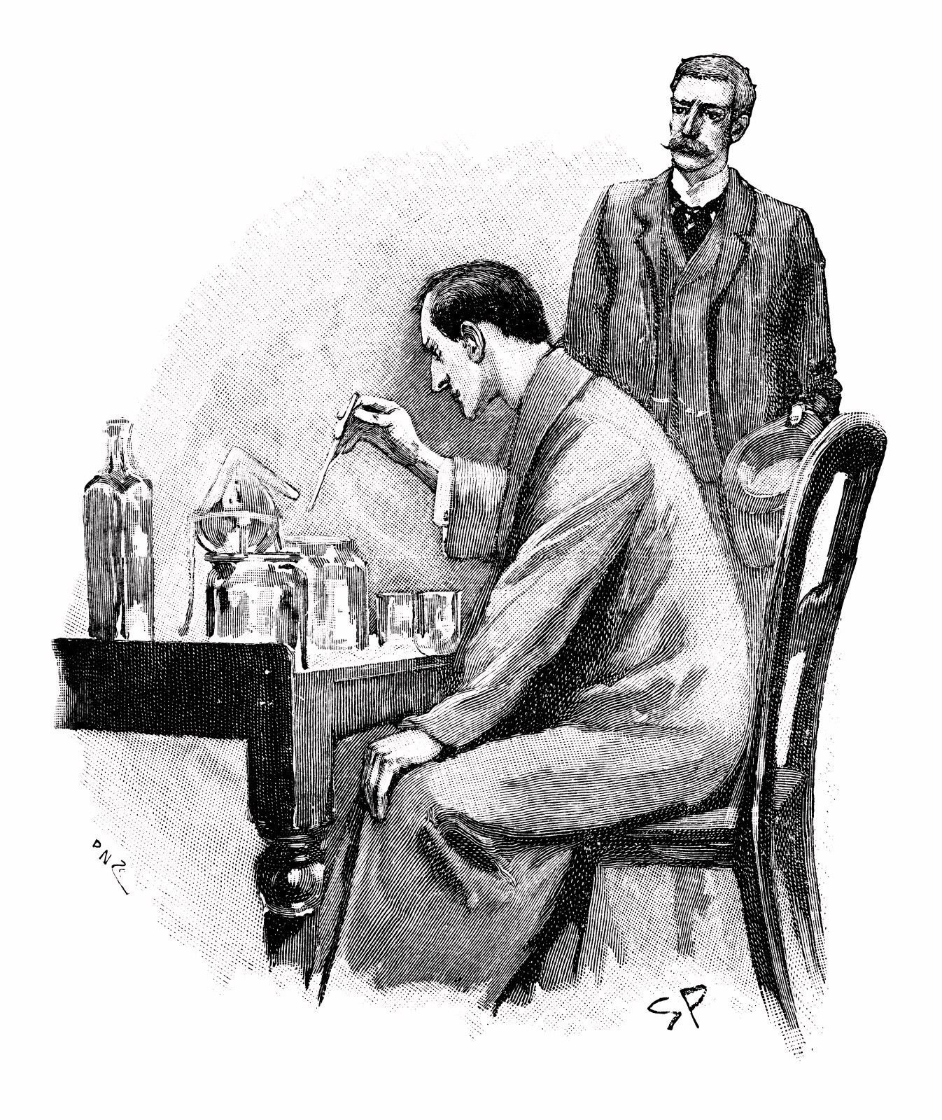 Arthur Conan Doyle, The Adventure of the Naval Treaty (1893). Illustration by Sidney Paget, in The Strand Magazine. Original caption : "Holmes was working hard over a chemical investigation."